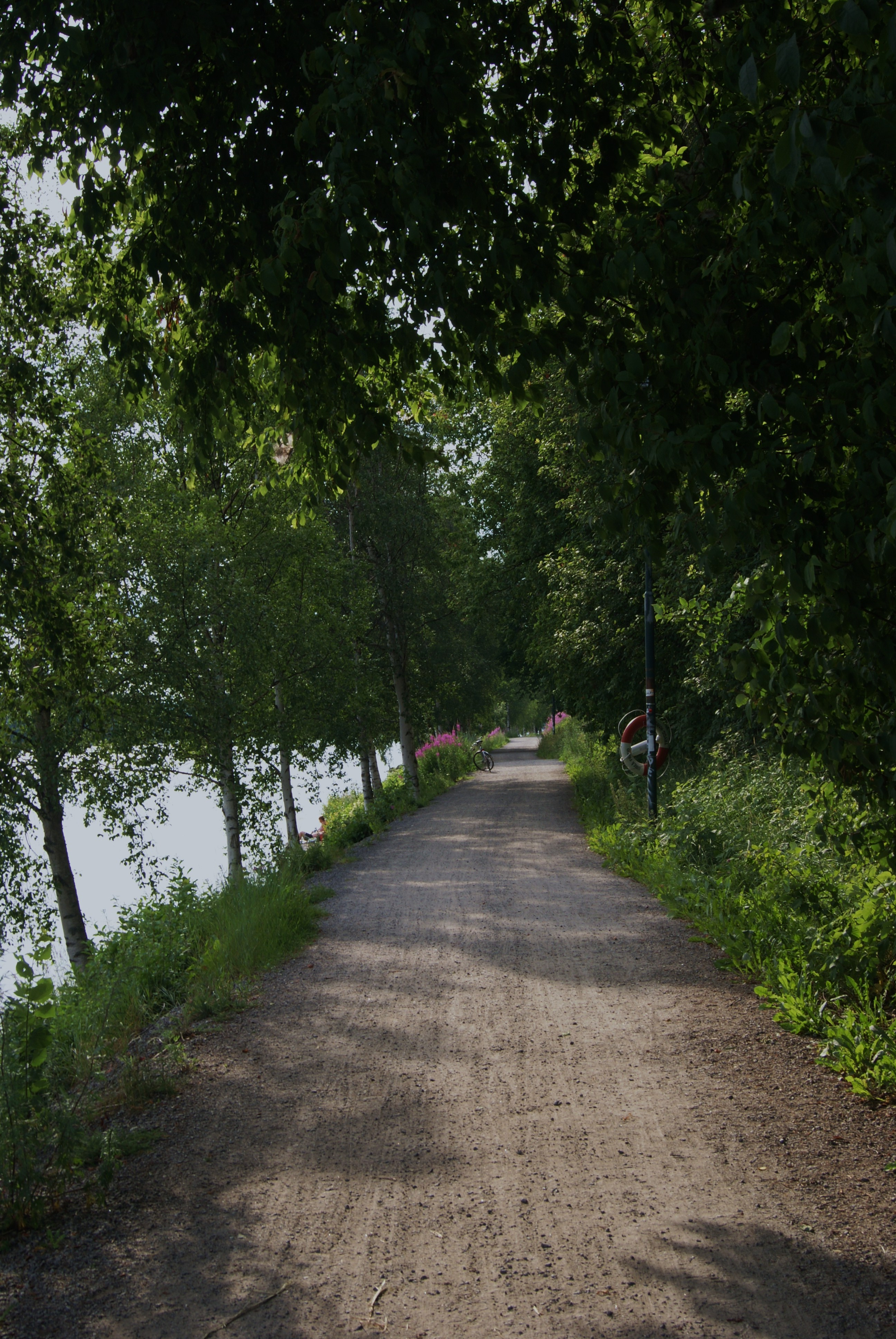 Västra Strandpromenaden (literally "western beach promenade") a riverwalk along the northern bank of Ume River in Umeå, Sweden.